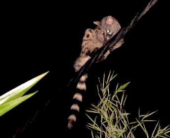 Common Genet